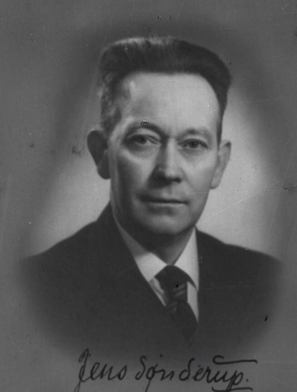 Jens Sønderup (1894-1978), Danish politician, MP, Minister of Employment and Social Welfare, Minister of Ecclesiastical Affairs, and Minister of Agriculture